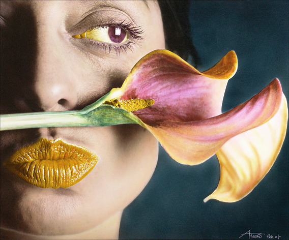 Photographs by Antonín Tesař Personality rights warningAlthough this work is freely licensed or in the public domain, the person(s) shown may have rights that legally restrict certain re-uses unless those depicted consent to such uses. In these cases, a model release or other evidence of consent could protect you from infringement claims.